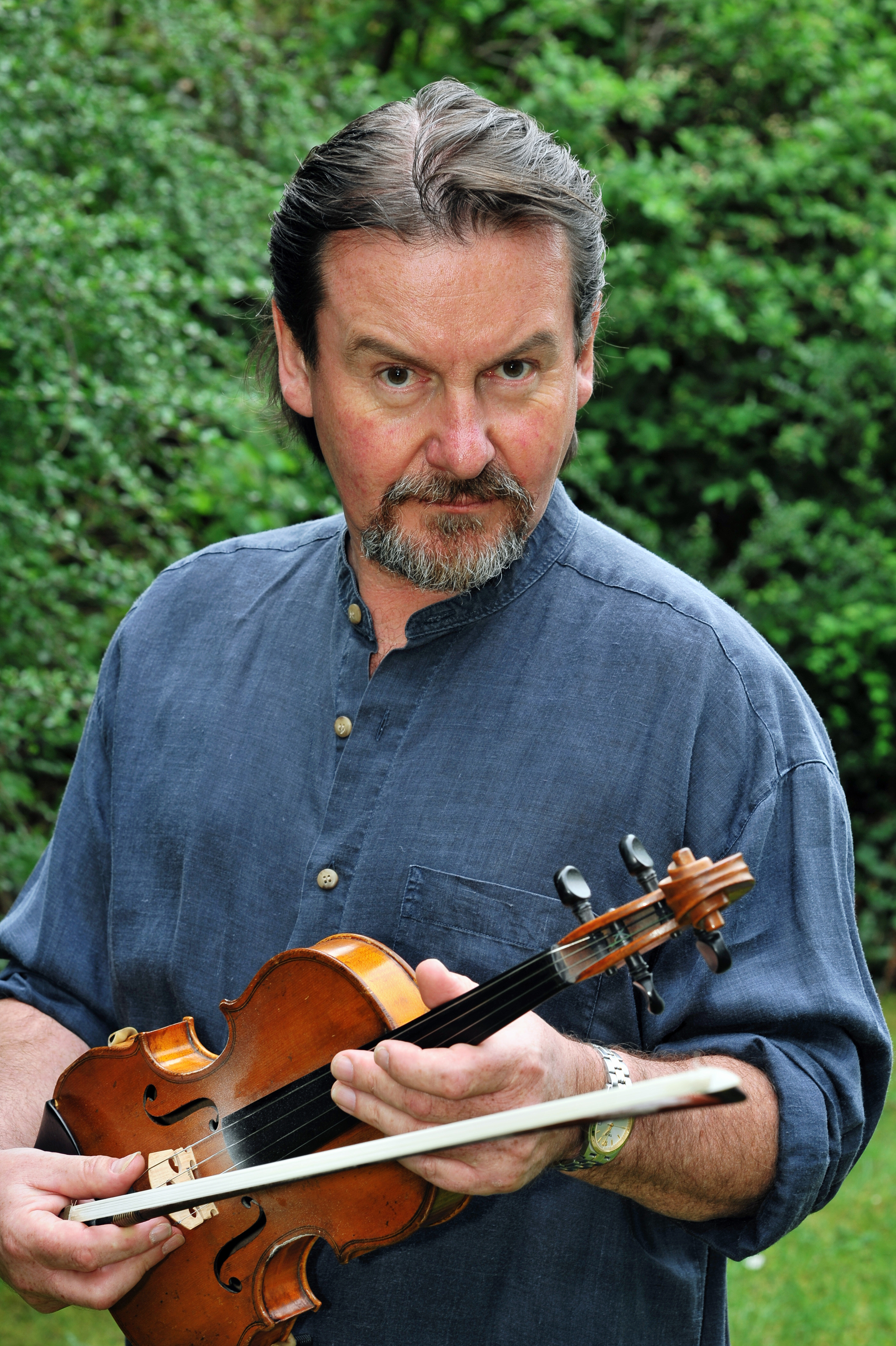 Larry Mathews, irish musician from the county Kerry, with fiddle. 85mm, f/7.1, fill-in flash